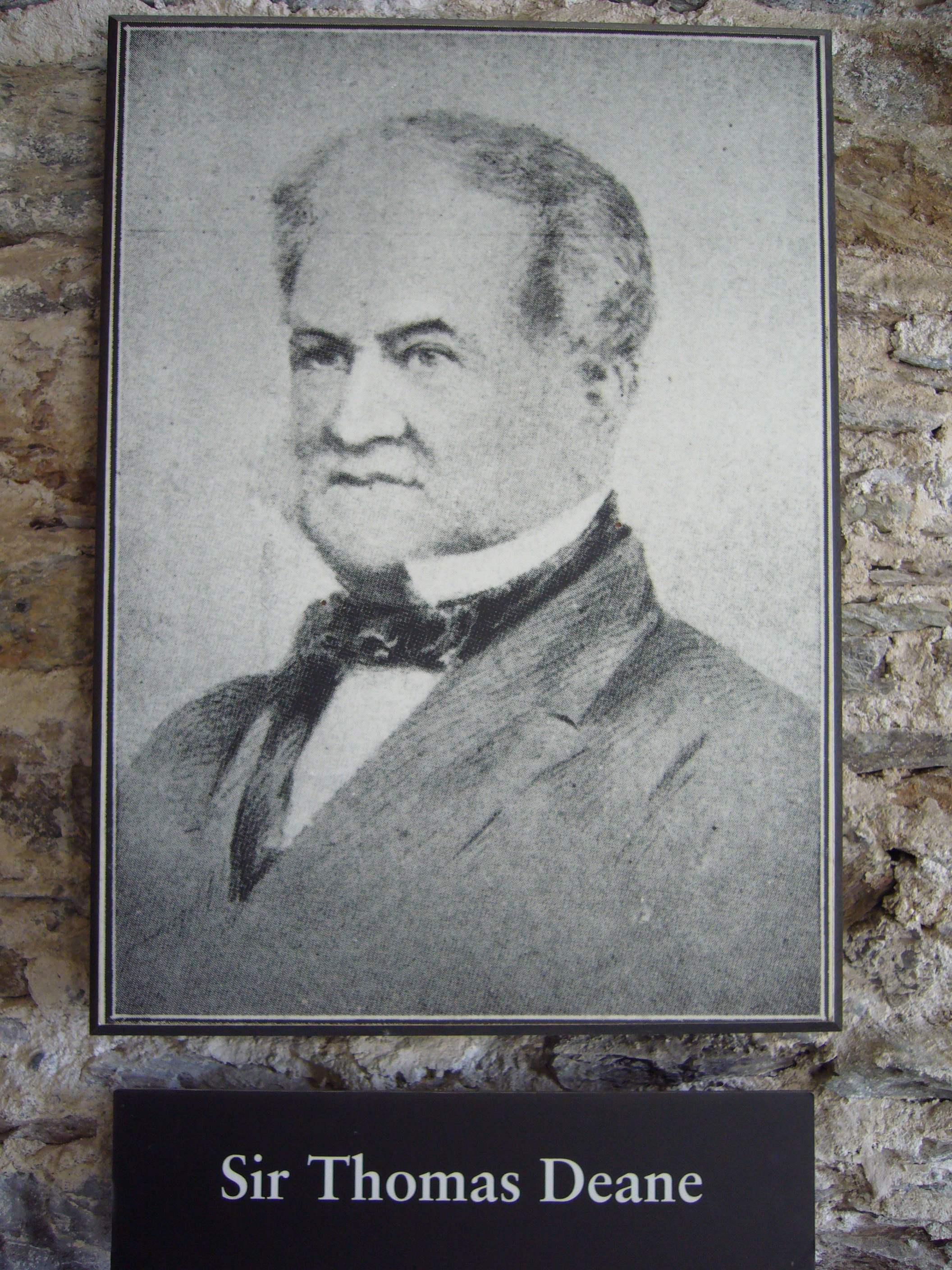 Photo de Sir Thomas Deane